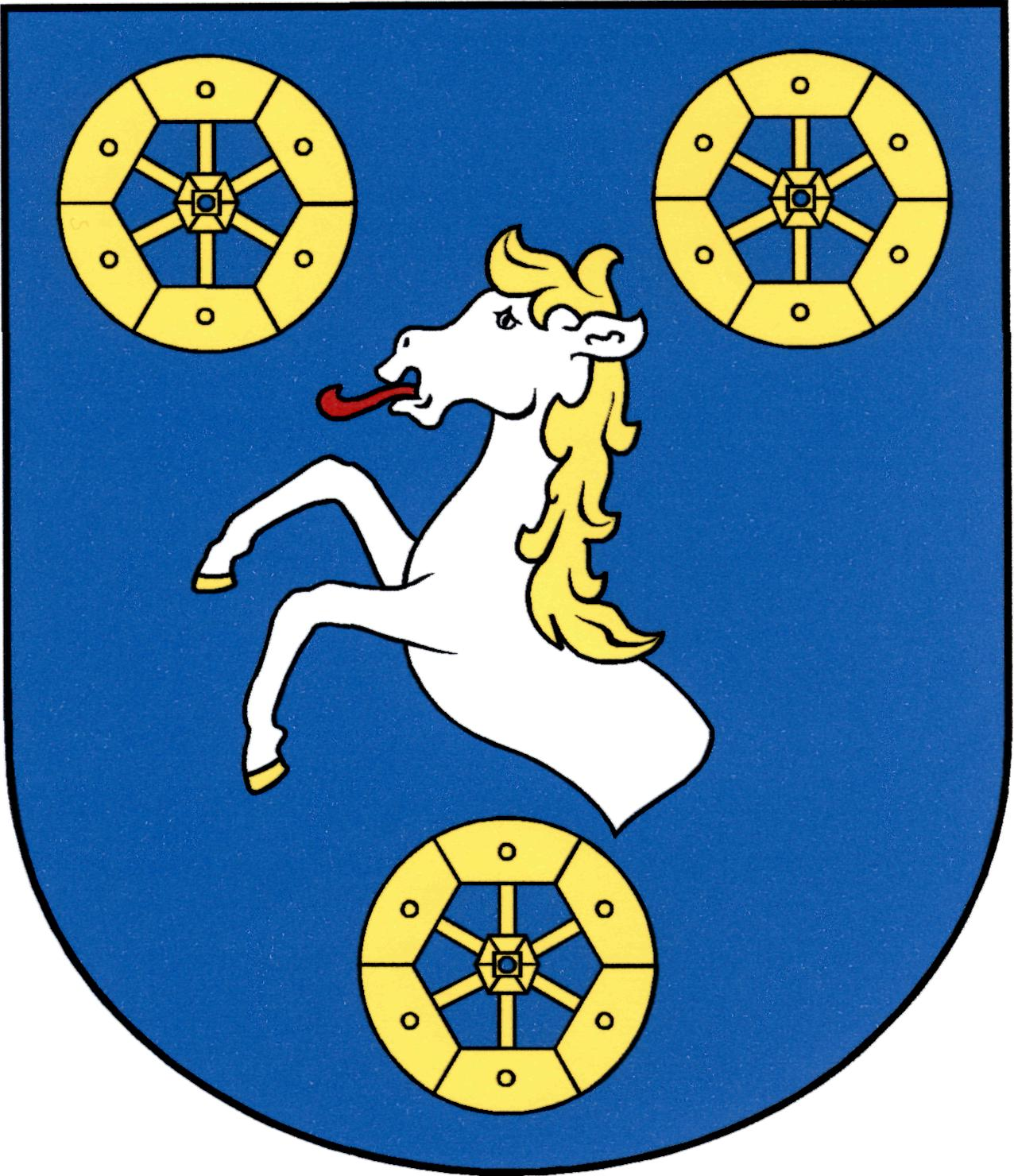 Coat of amrs of Všestary , District Prague-East, Czech Republic